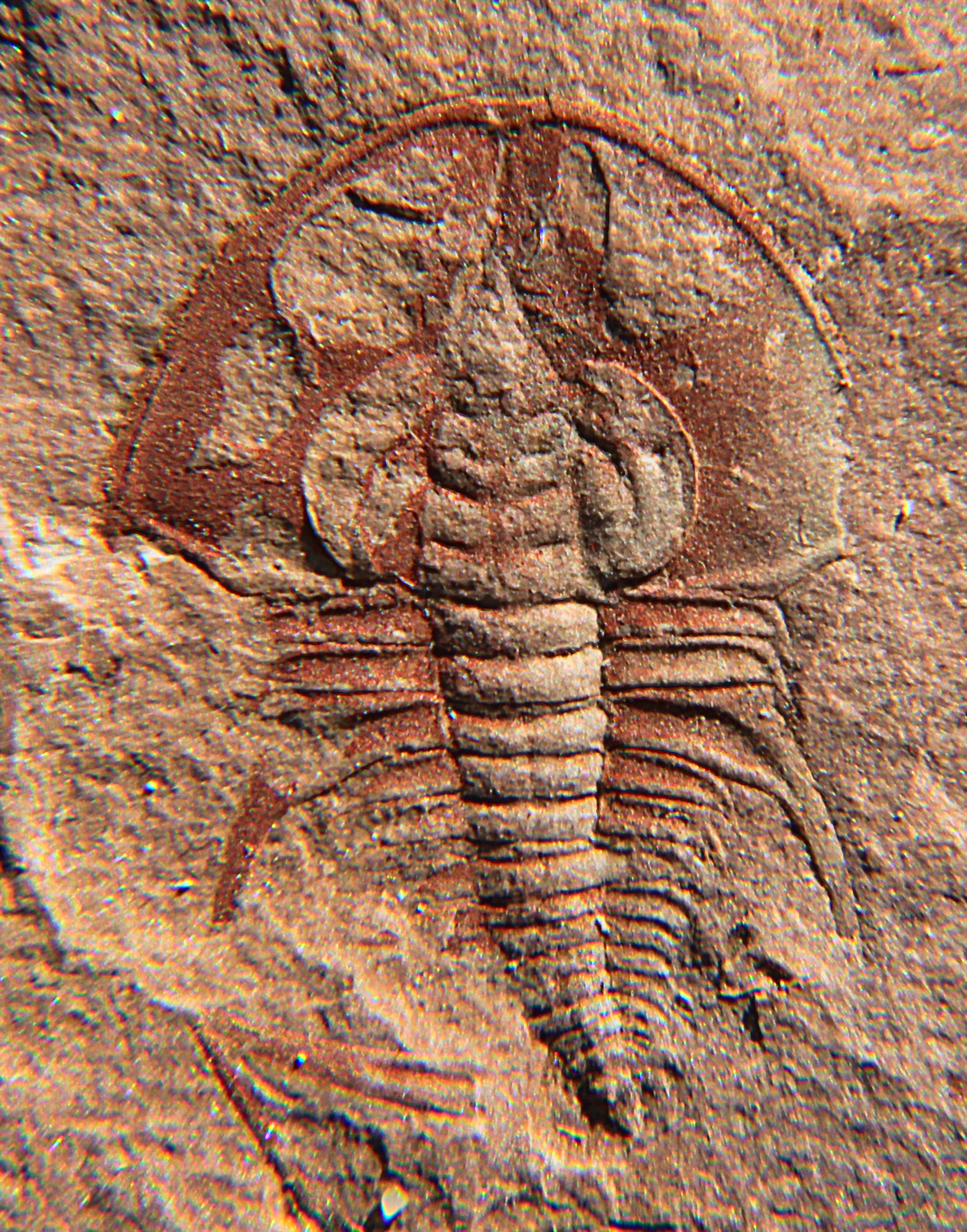 An Olenellus chiefensis trilobite, Order Redlichiida, Family Olenellidae, 18mm measured along the axis, collected from the Pioche Shale, Nevada, USA, from the late Lower Cambrian (Toyonian)